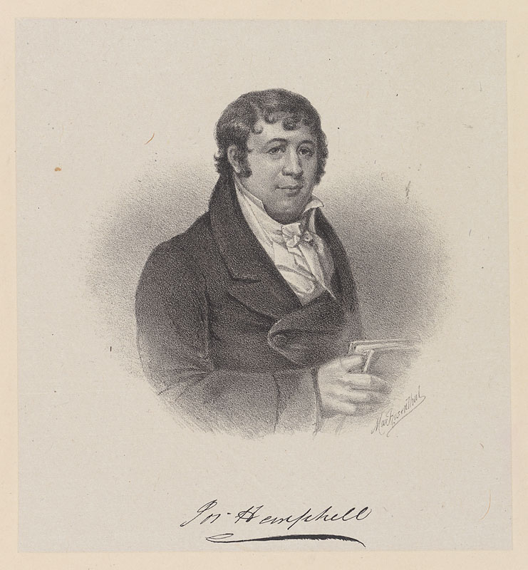 Joseph Hemphill (1770-1842)